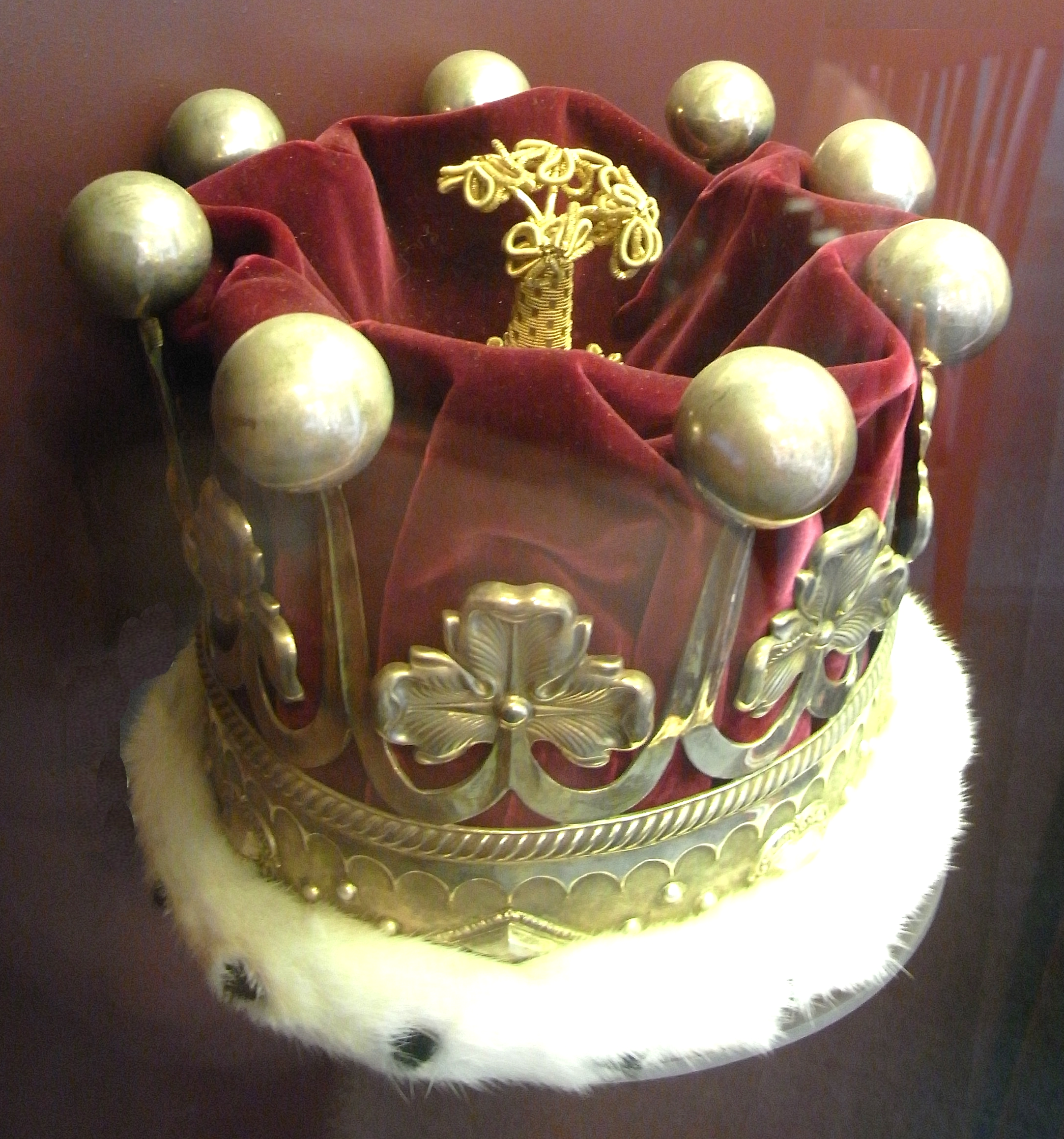 Coronet of Hugh Courtenay, 18th Earl of Devon (1942–2015), displayed at Powderham Castle, Devon. Probably last worn by his father Charles Courtenay, 17th Earl of Devon (1916–1998) at the Coronation of Queen Elizabeth II in 1952.